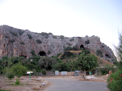 caves stream, נחל מערות. This is a photo of a heritage building in Israel. Its ID is 16-4000-101